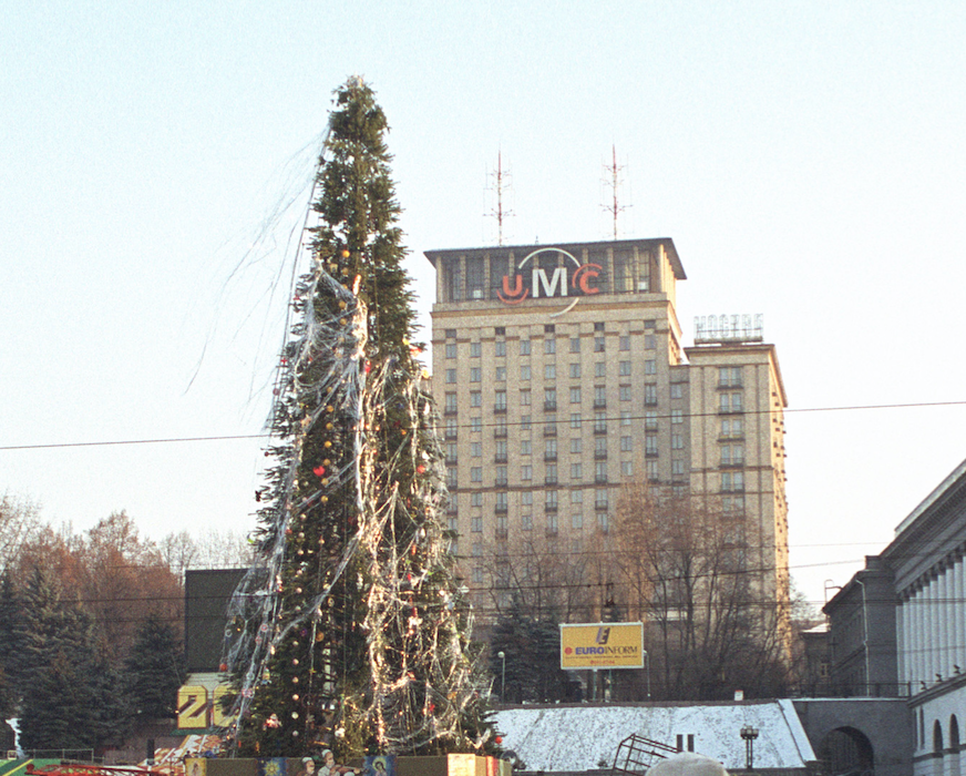 UMC logo on top of Ukraine hotel